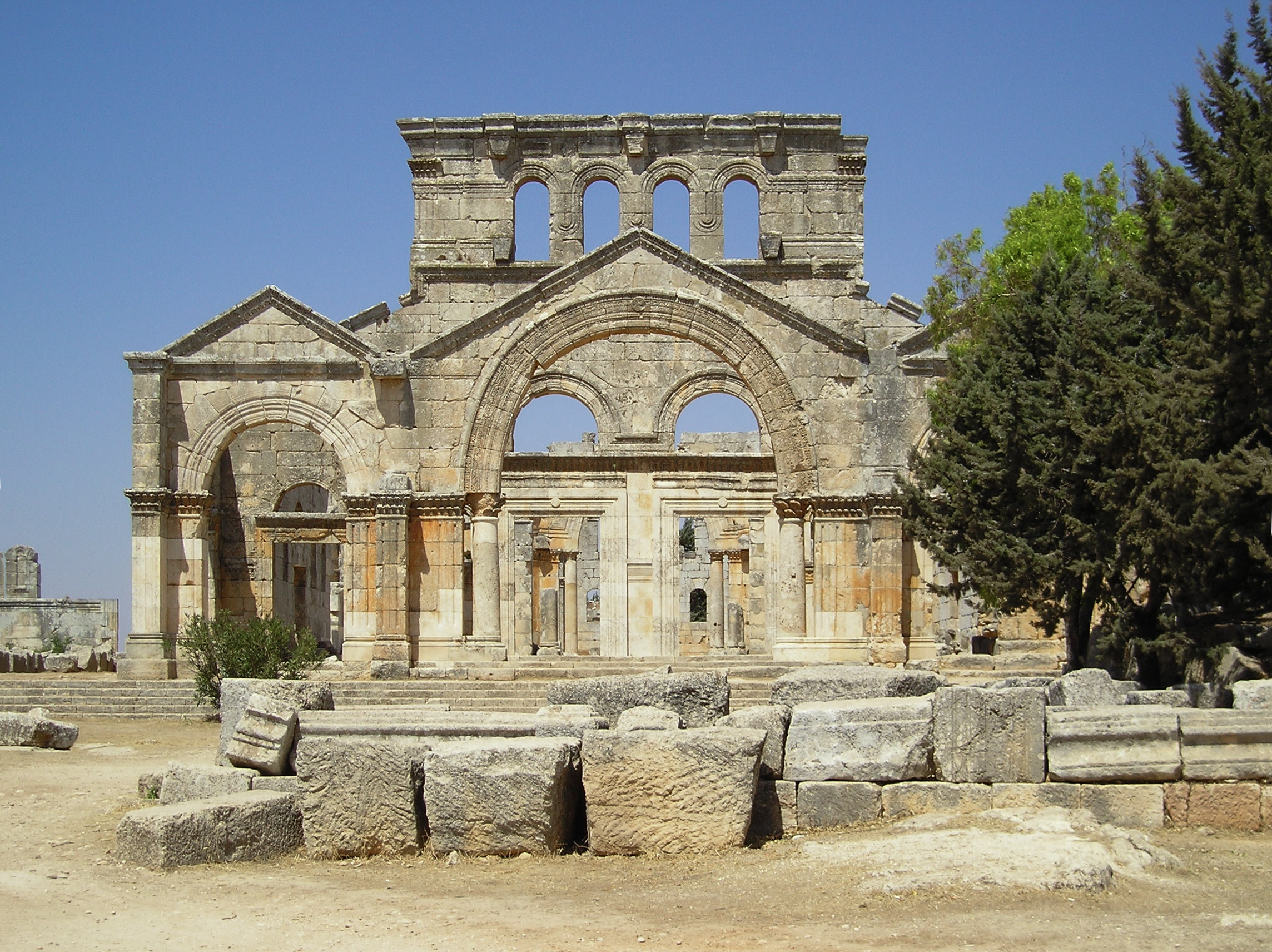 Ruins of St Simeon Stylites, Syria